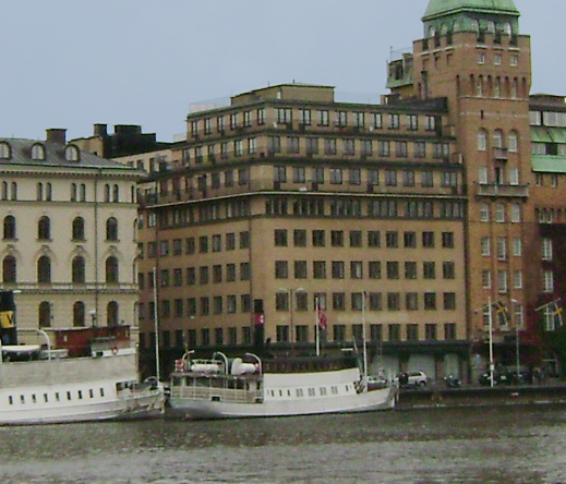 Sweden. Stockholm. Östermalm. Nybroviken